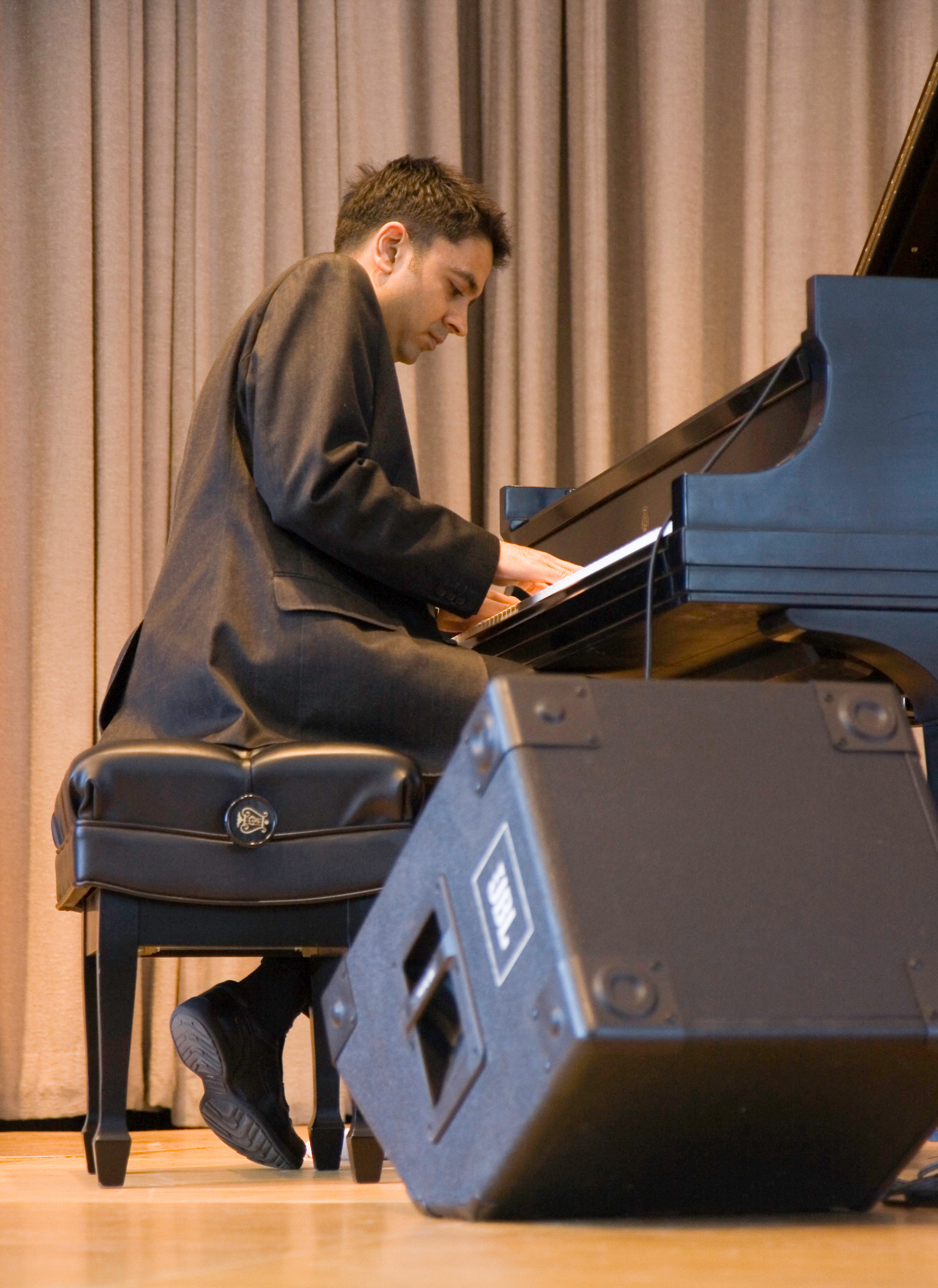 The Vijay Iyer Quartet performed an intense and spirited set of music as part of the Art of Jazz series at the Albright-Knox Art Gallery, Buffalo, New York.